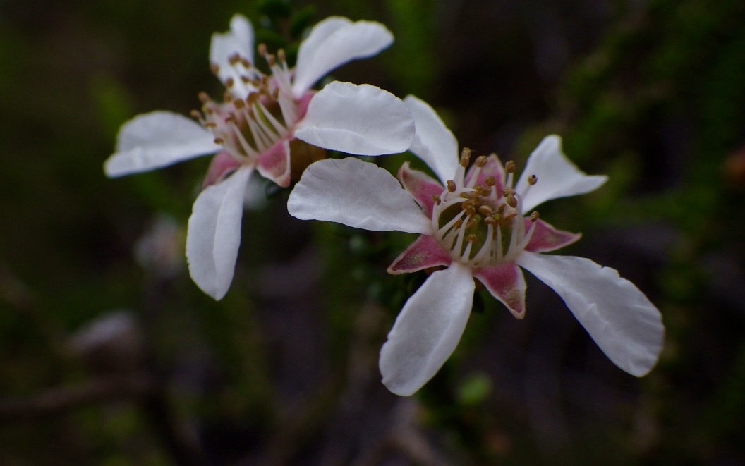 Flower of Leptospermum epacridoideum near Coomies Walk, Beecroft Peninsula, New South Wales